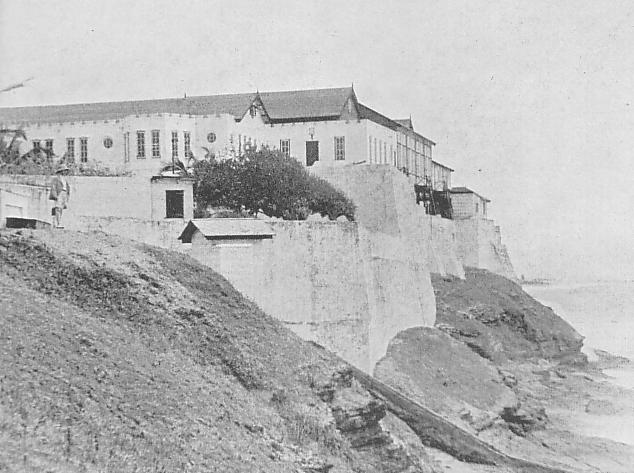 Accra Fort Christiansborg in 1930s